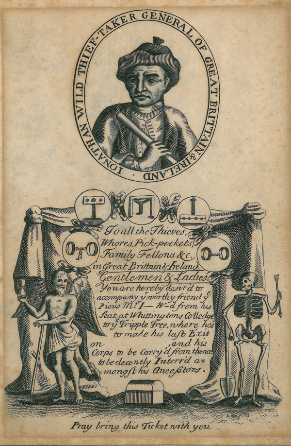 In the collection of Wolverhampton Arts and Museums Service Brief Description: Ticket for the execution of Jonathan Wild, the famous Wolverhampton thief. The ticket displays a portrait of Jonathan at the top surrounded by the words "Jonathan Wild Thief-Taker General of Great Britain and Ireland. Below is a figure of a man and skeleton with torture tools in circles and a written warning to thiefs in the centre. ObjectNumber: W1178 Dimensions: 9 x 13 cm Colour: Black White Technique: Printed Material: Ink, Paper Note that the emblem at the top is Wild's own imprint, showing him in cloth cap and bearing a mace as a symbol of policing. The main illustration bears the emblems of Death (left) and the Grave (right), surmounted by devices of imprisonment. Between Death and the Grave is a small casket. The text invites all criminals, and then ladies and gentlemen, to walk with their friend I--- W--d to the "triple tree," which was Tyburn. The gallows there were a simple L-shaped beams arranged with three together.